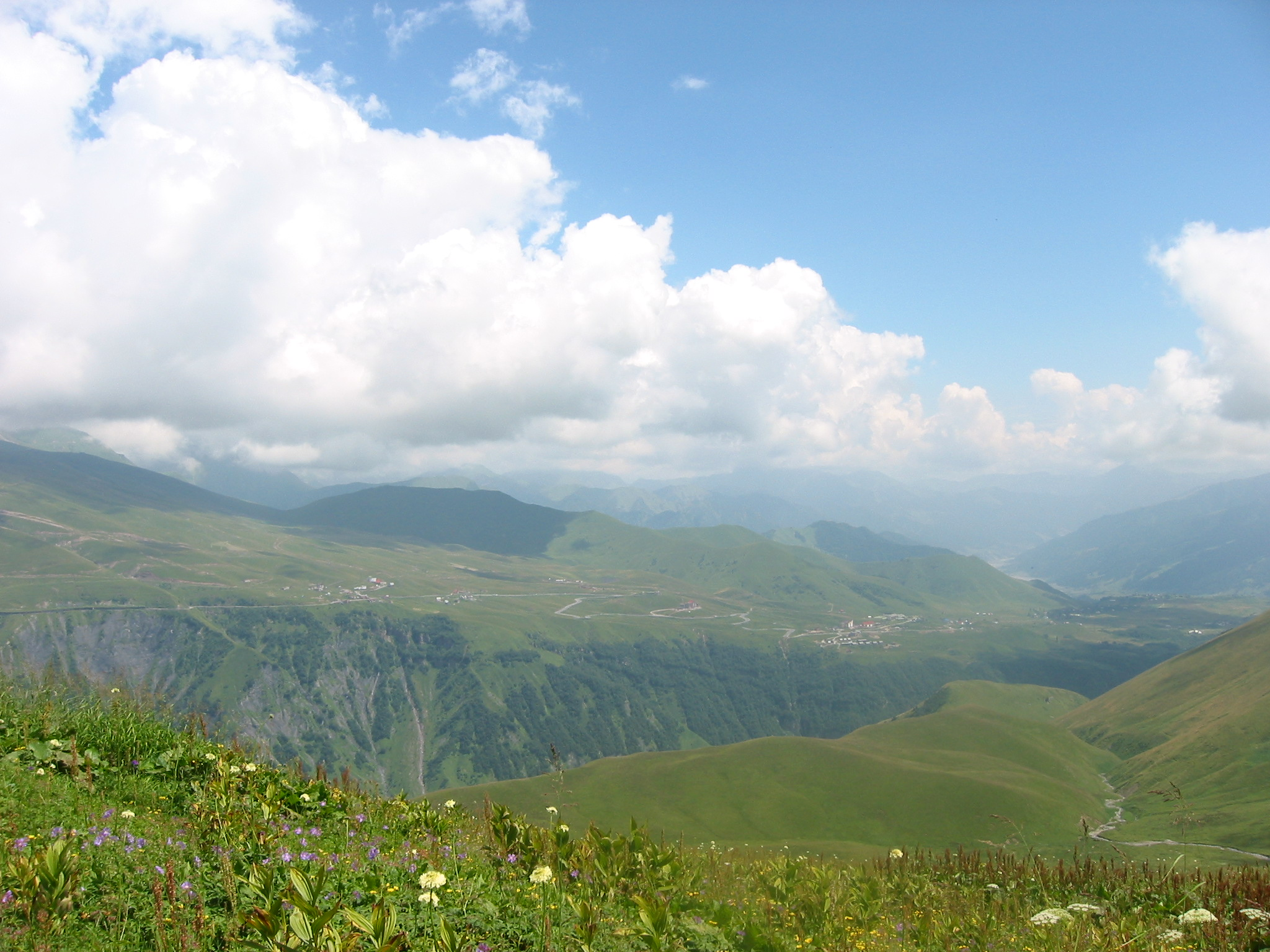 Keli Lake 10.08.2005